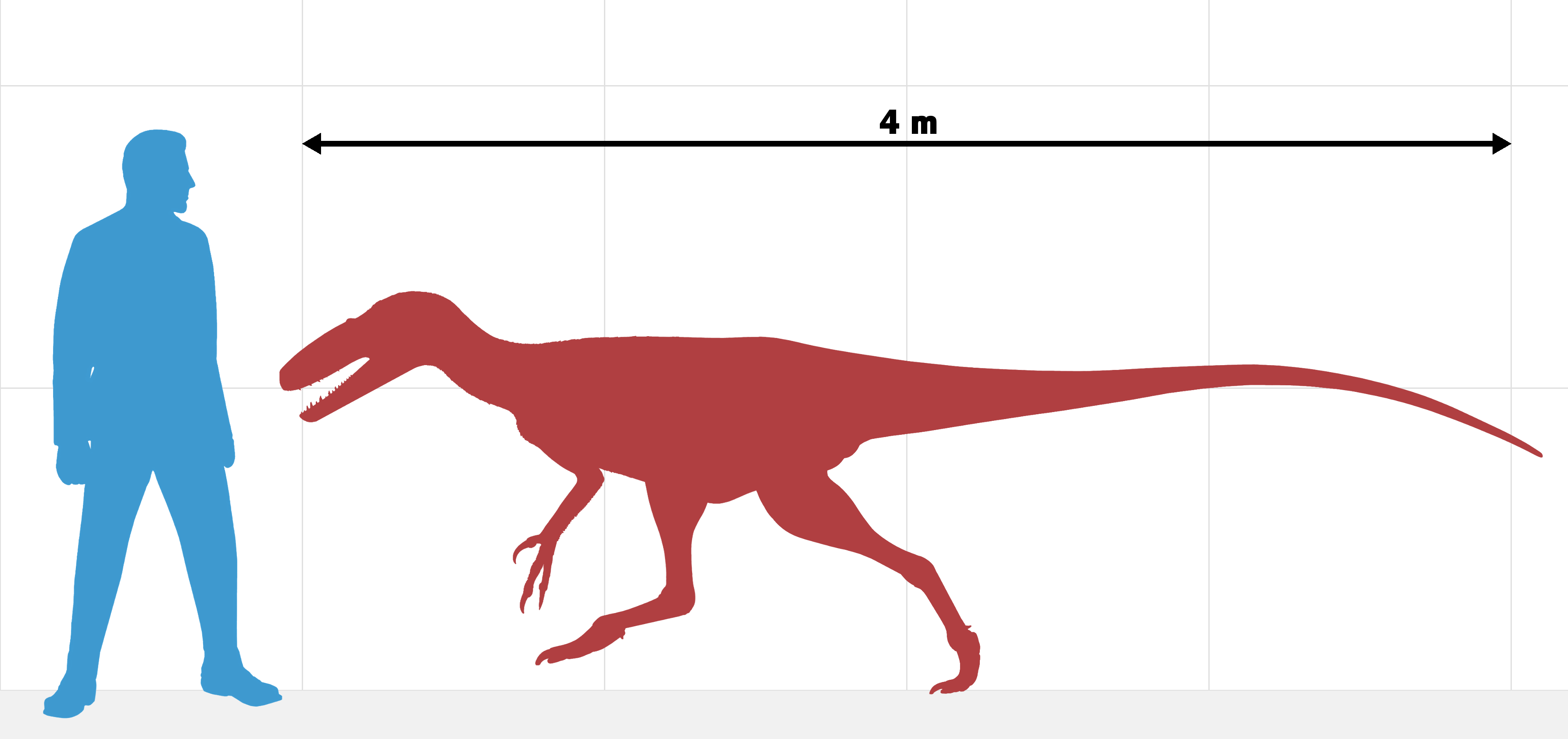 Size based on holotype specimen. Silhouette based on human from (CC-0 [1]))